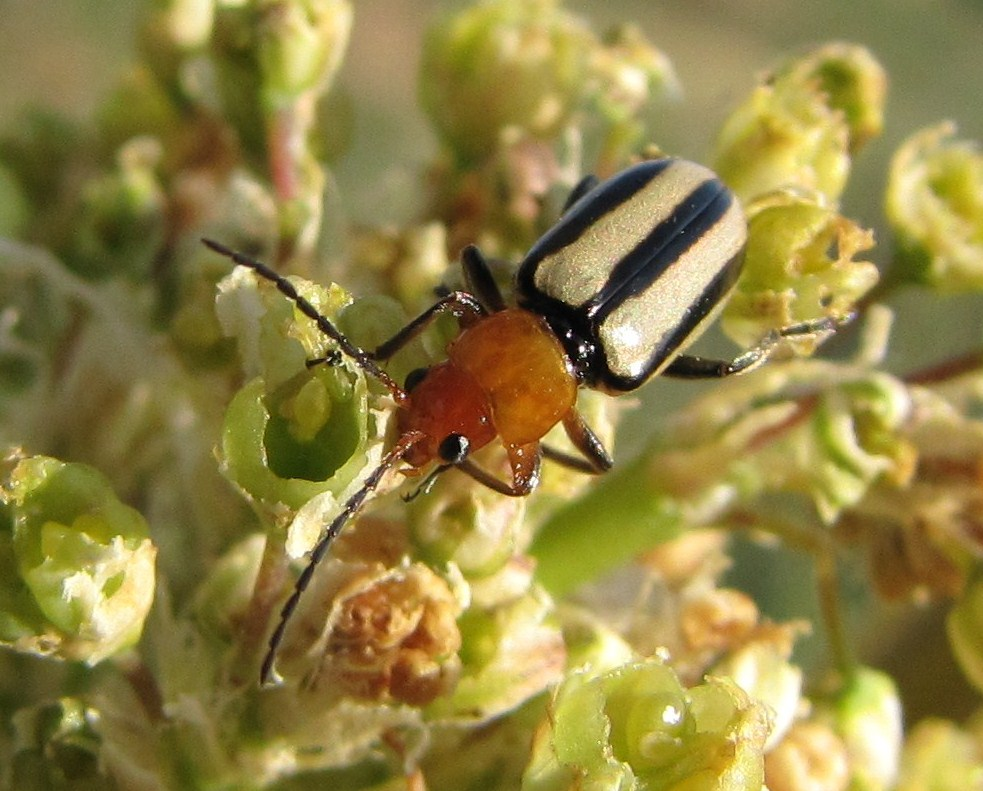 Pale striped flea beetle - Systena blanda on the flowers of a chaparral yucca - Hesperoyucca whipplei Location: Hill east of Villa Park Dam, Orange, CA, USA